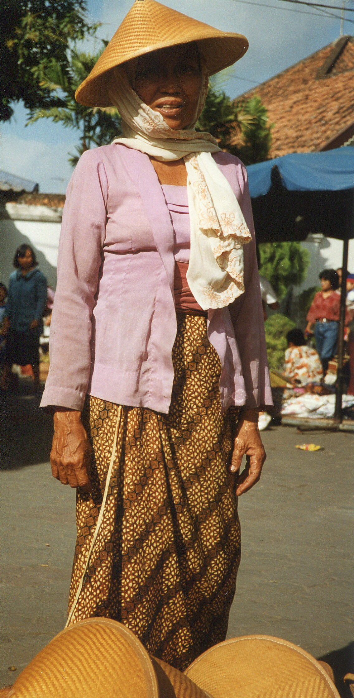 Batik sarong worn by female hat seller, Yogkakarta